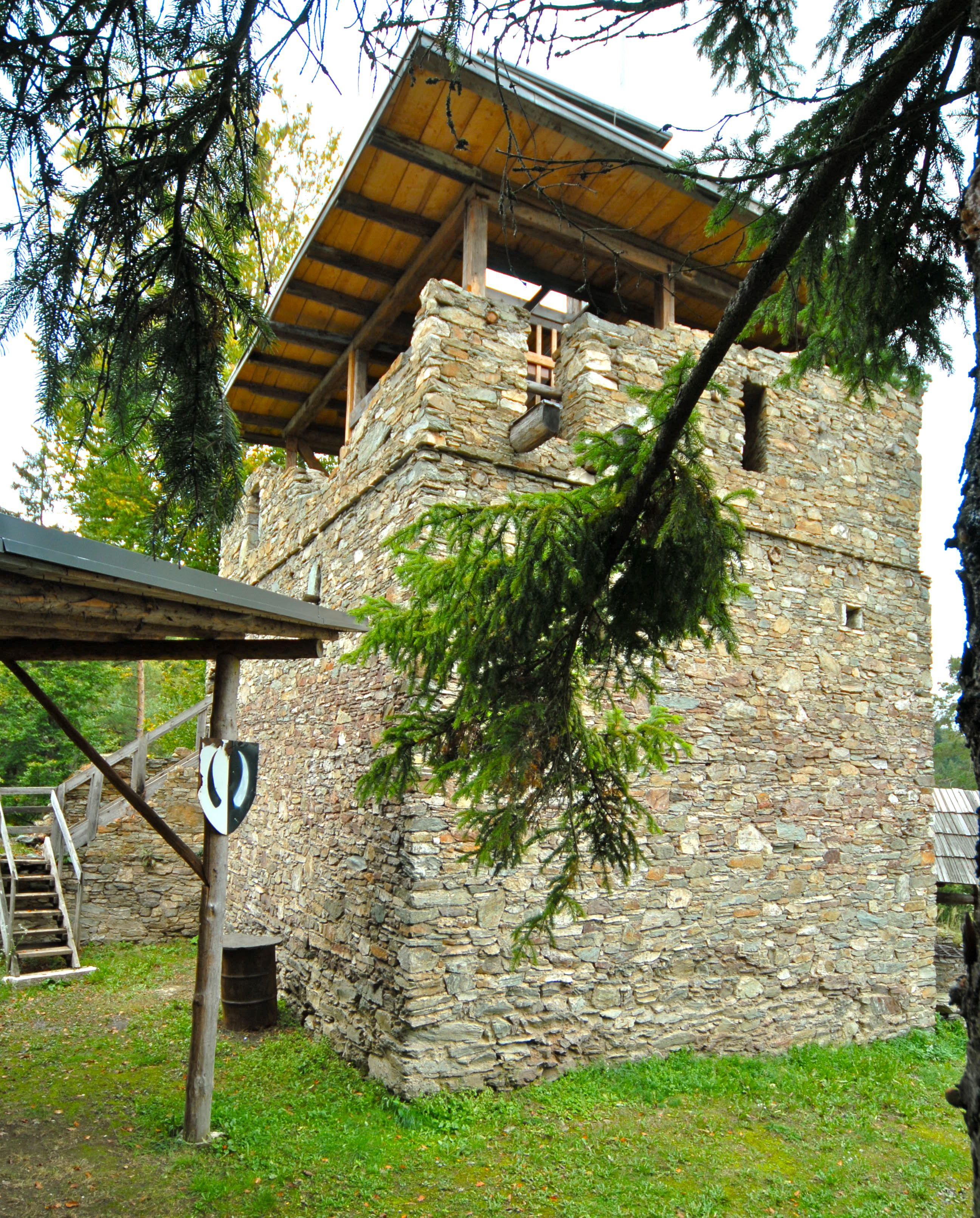 Castle ruin Zeiselburg near Zeiselberg, market town Magdalensberg, district Klagenfurt Land, Carinthia, Austria, EU